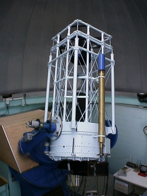 1.0 meter telescope at NOFS, first telescope (1955).